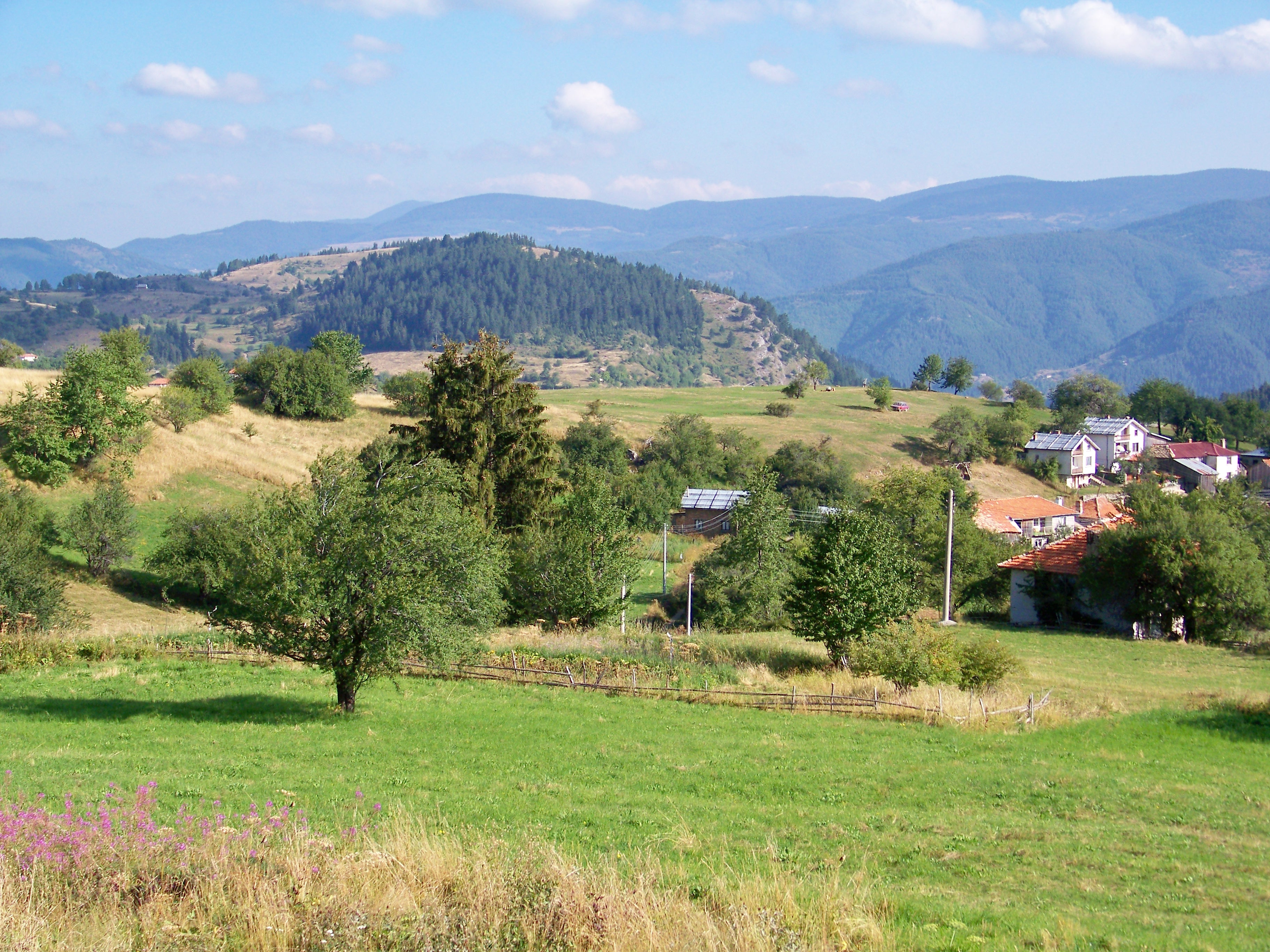 Gela, Bulgaria